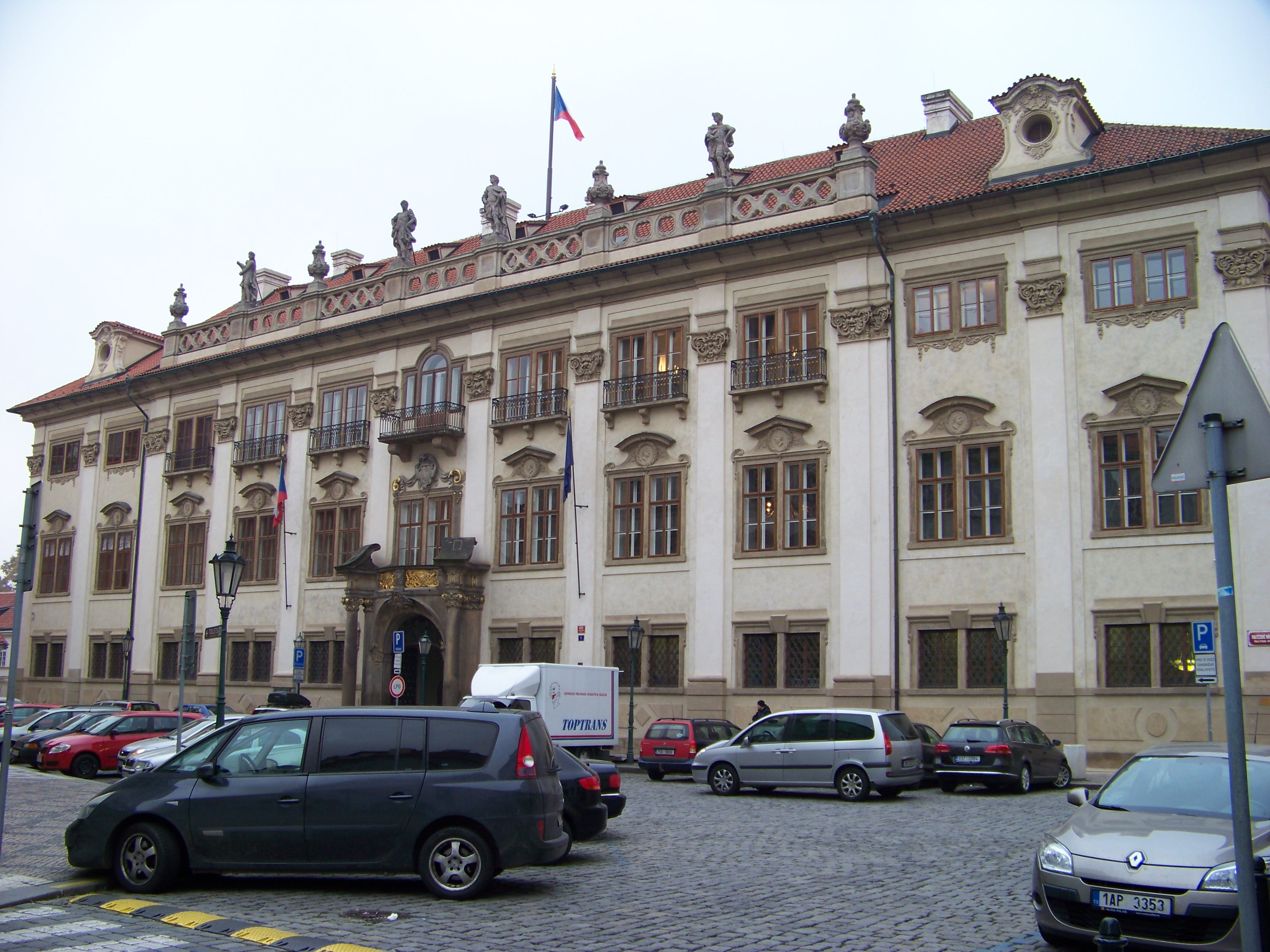 Prague-Malá Strana, the Czech Republic. Maltézské Square 471/1, Palais Nostitz.